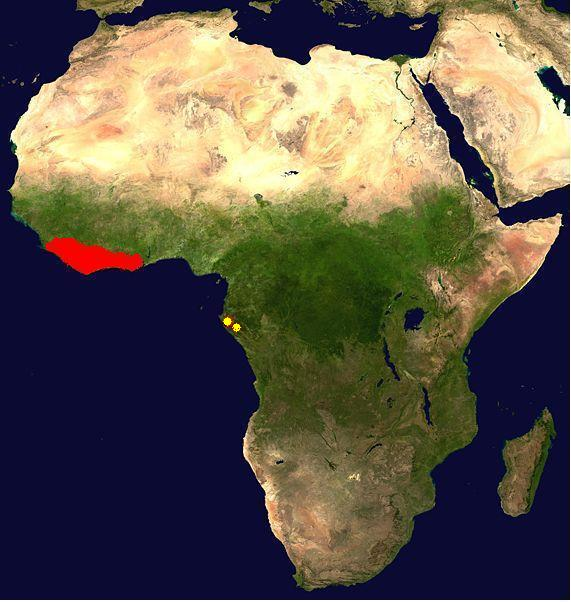 Forest robin (red), and Olive-backed Forest Robin (yellow) areals